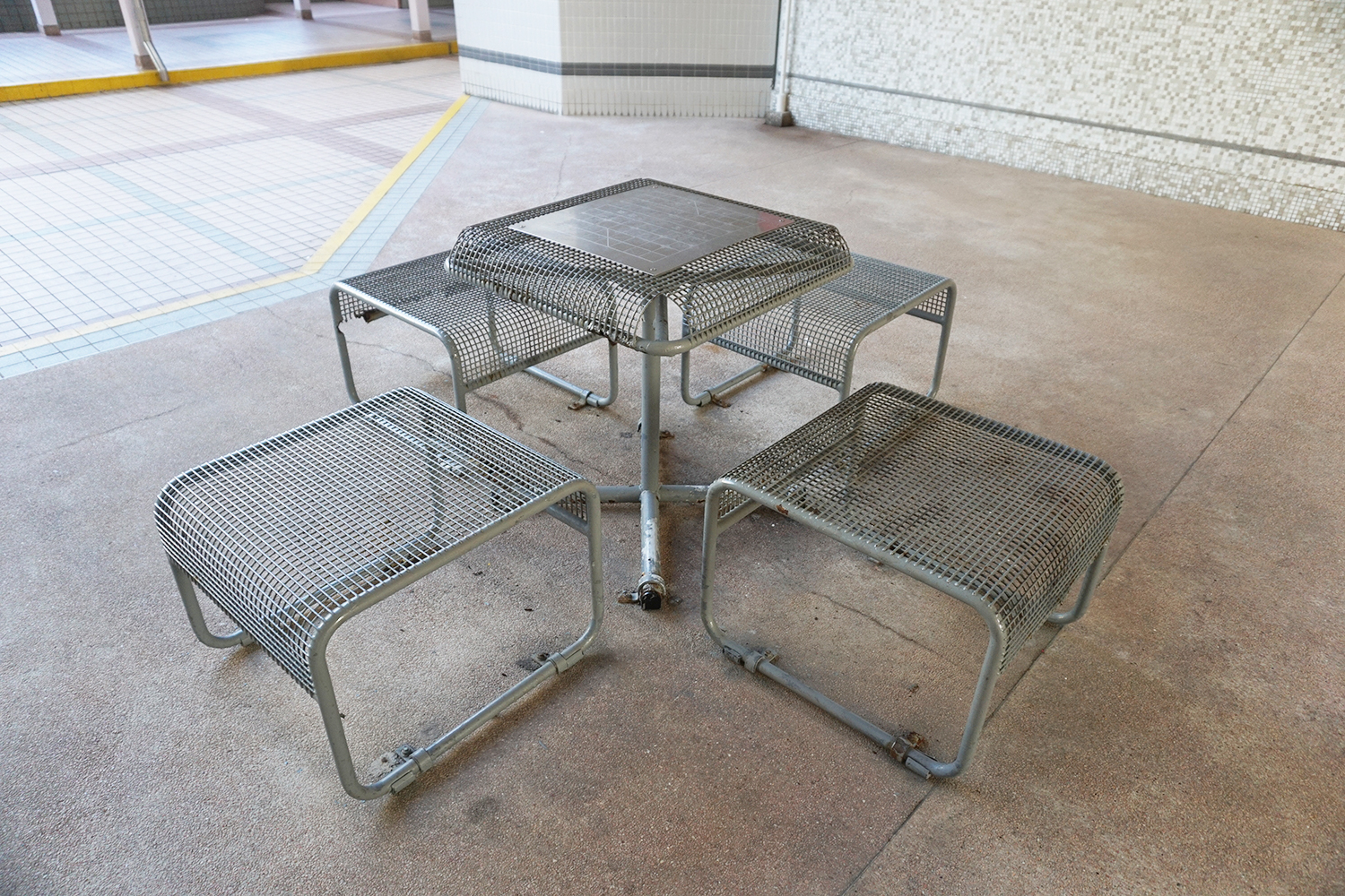 Yau Tsui Court in Yau Tong, Hong Kong.